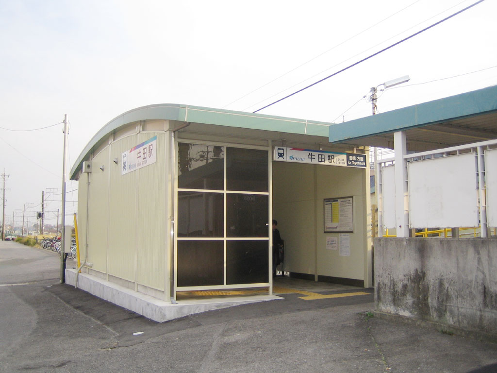 Ushida Station (牛田駅), in Chiryū, Aichi, Japan